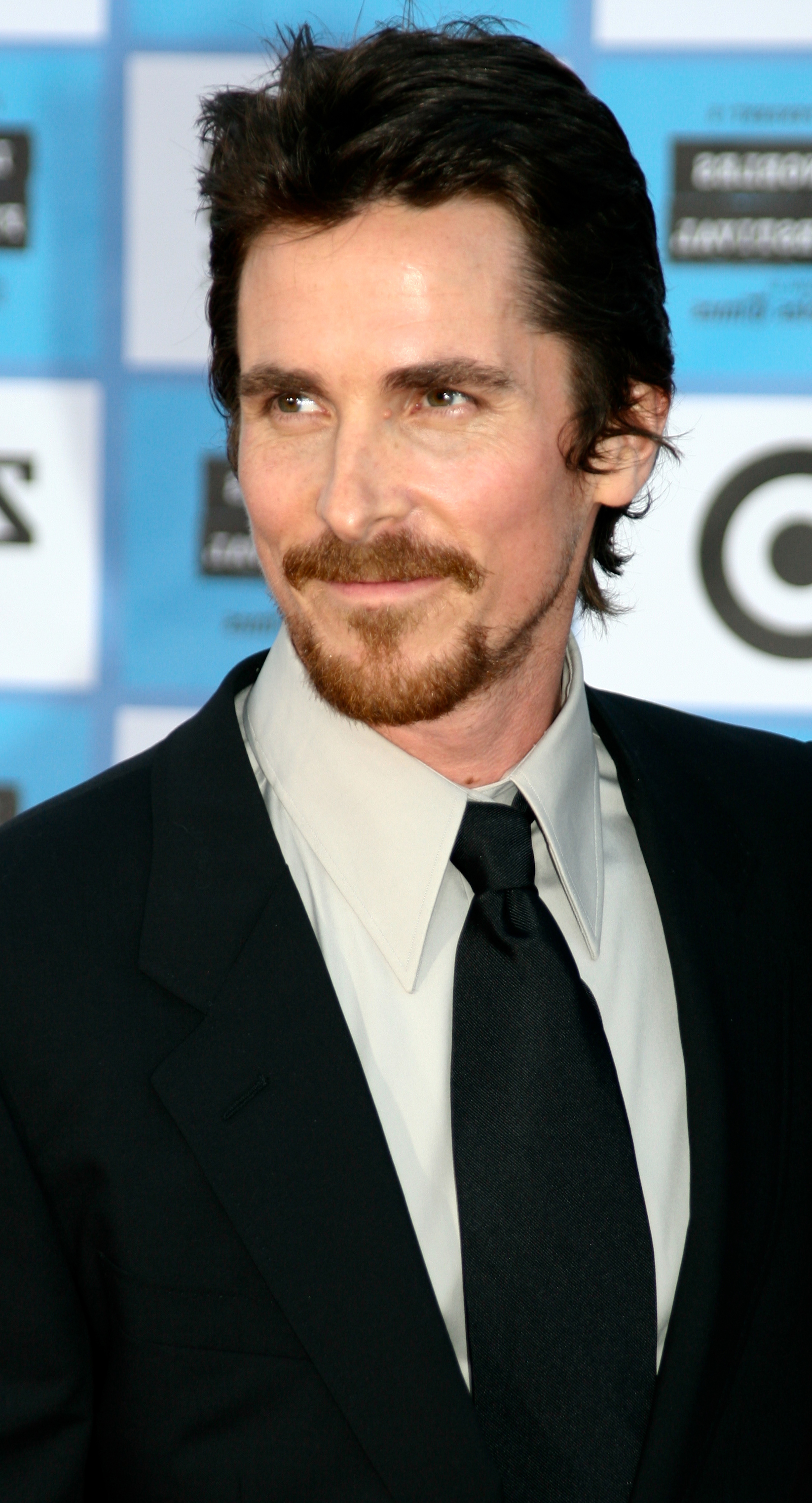 Christian Bale at the red carpet film premiere of Public Enemies at the Mann Village Westwood during the 2009 Los Angeles Film Festival.